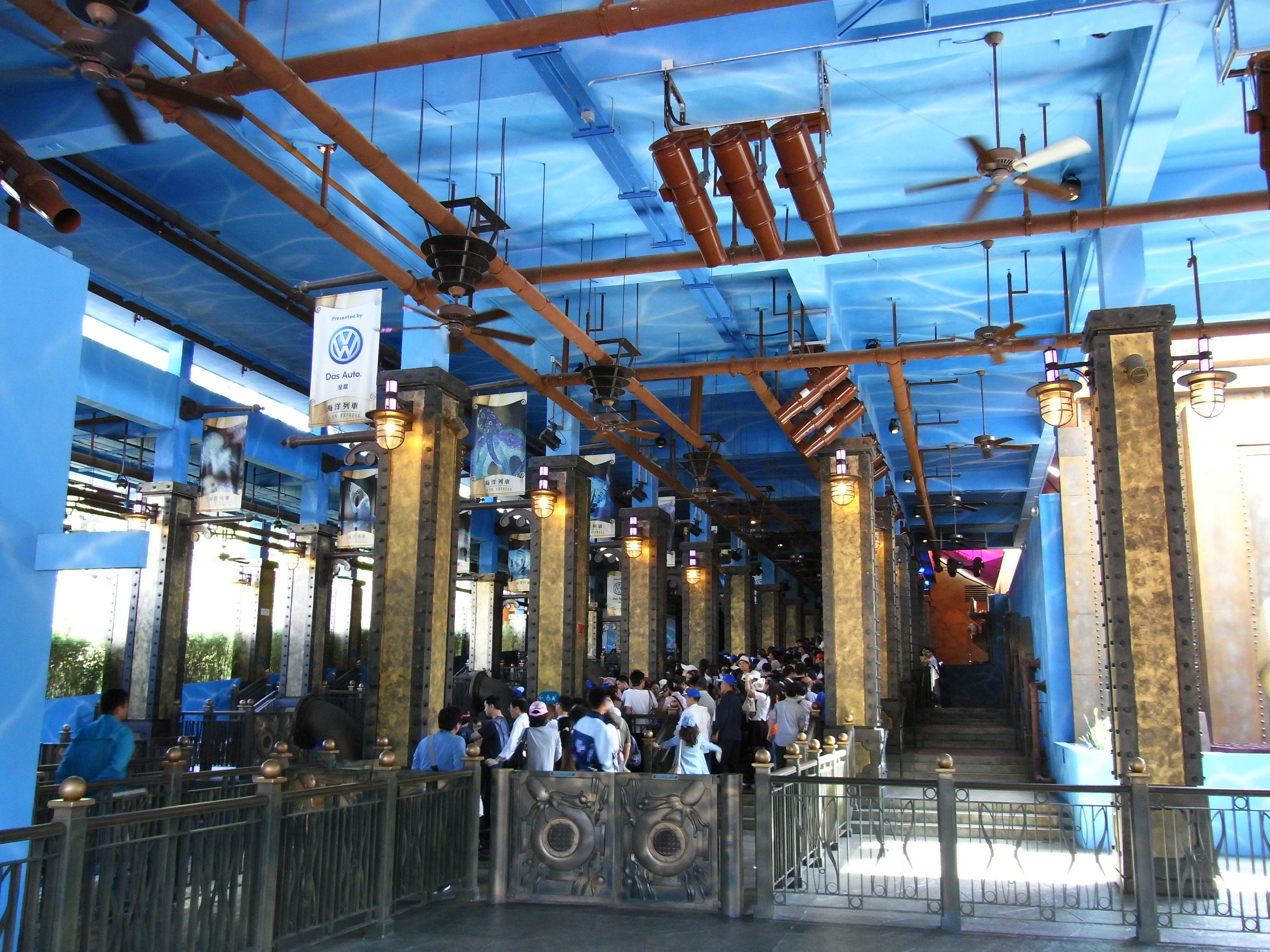 香港海洋公園 Ocean Express, Ocean Park, Southern District, China